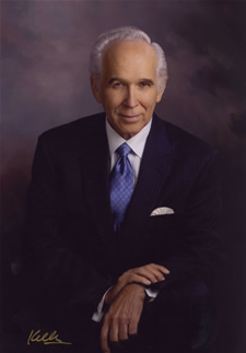 Professional Authorship Photo